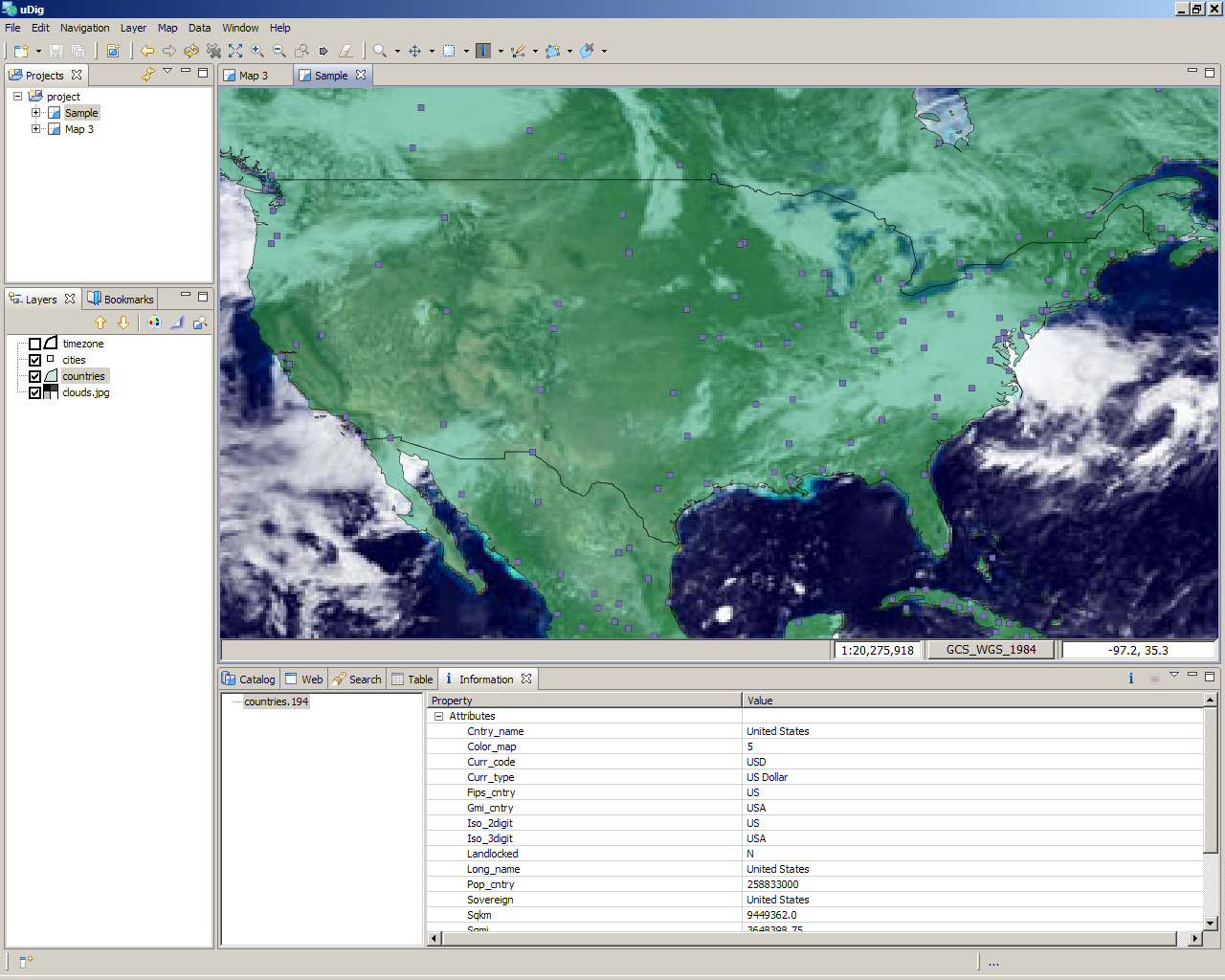 A screenshot of uDig-1.1-RC14.